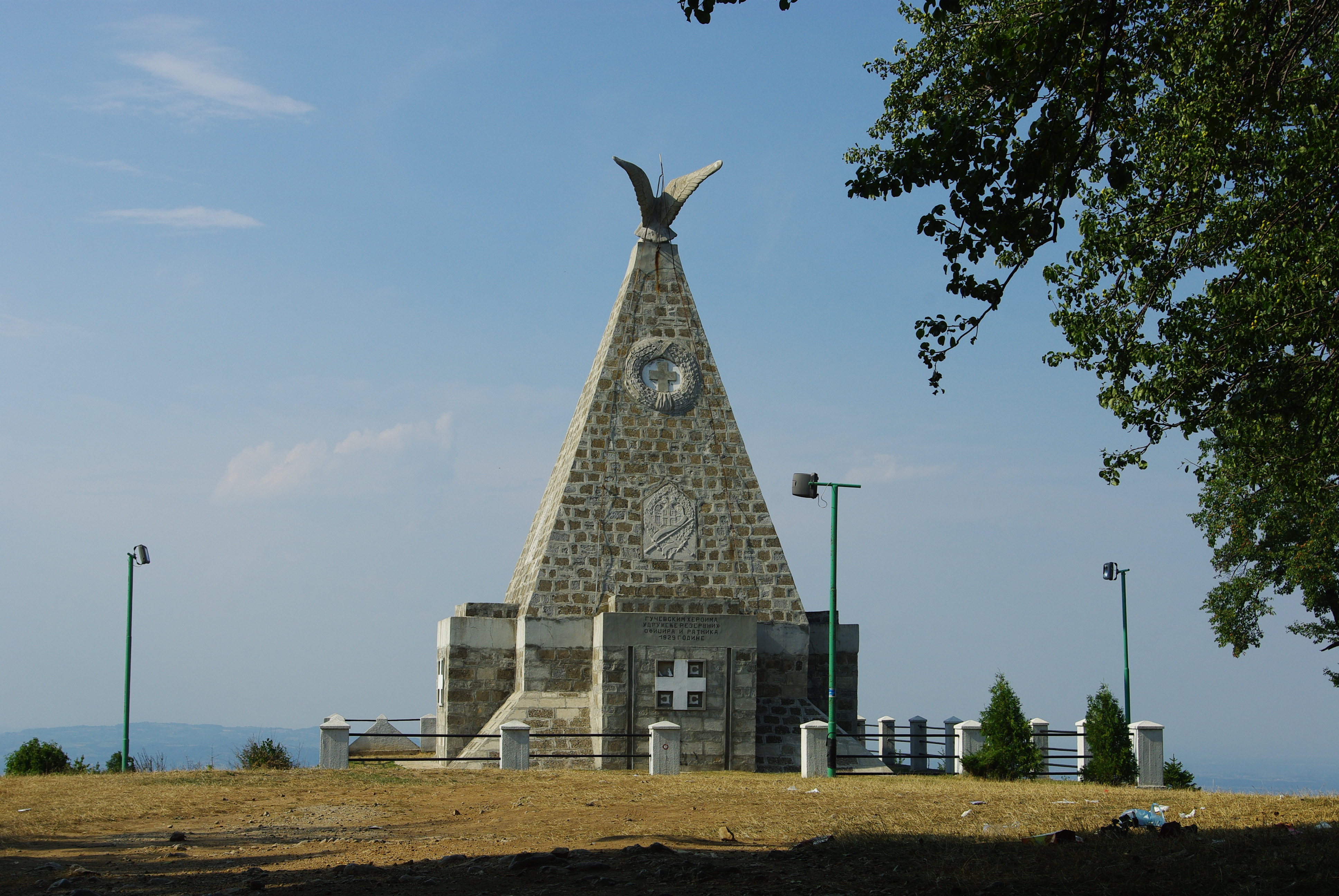 Monument on Gucevo hill, Loznica ,Serbia.